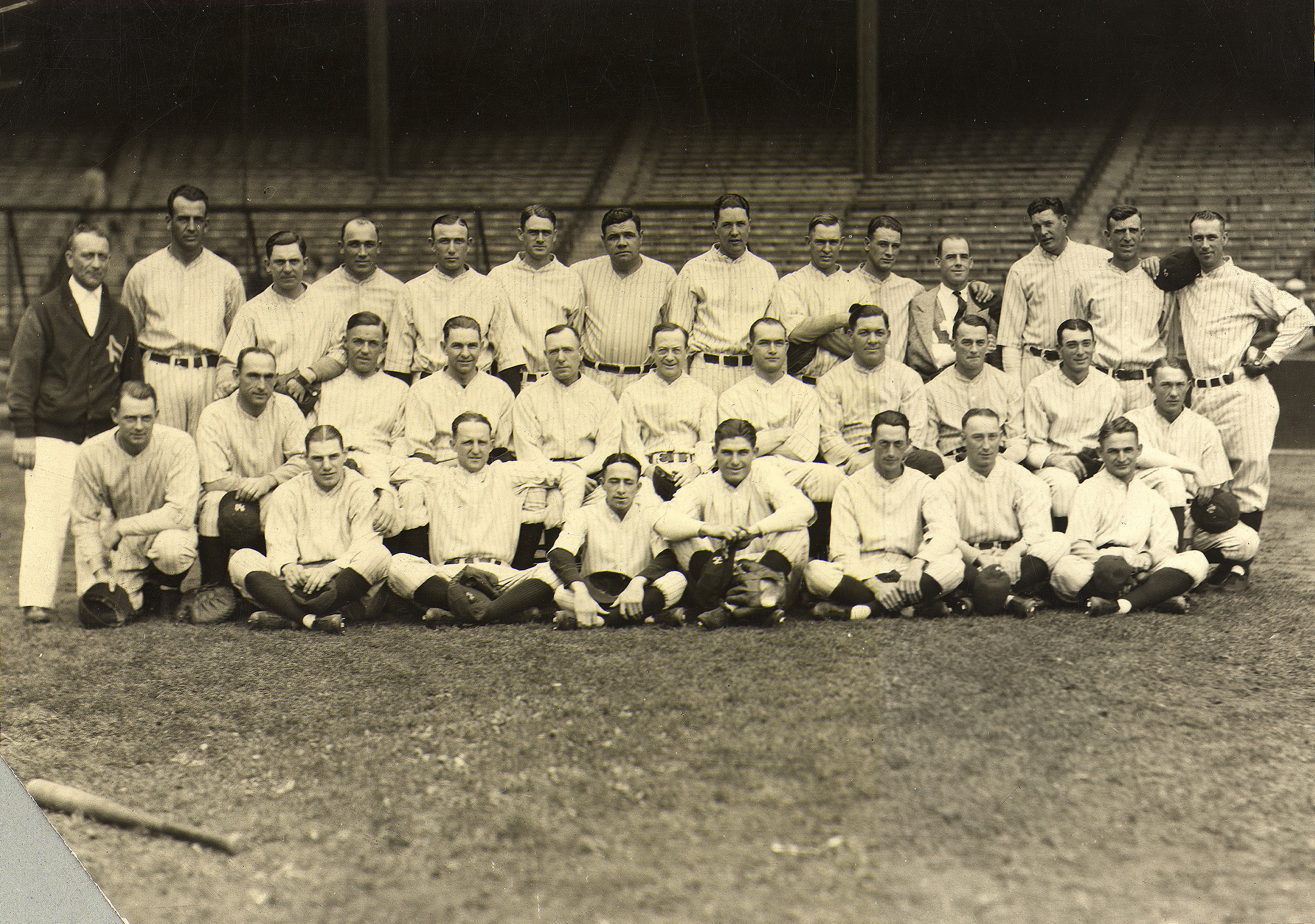 The 1926 New York Yankees Baseball Team